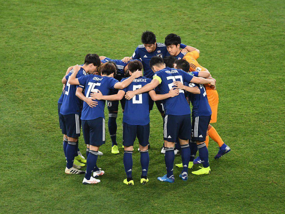 Iran-Japan, 2019 AFC Asian Cup Semi-final